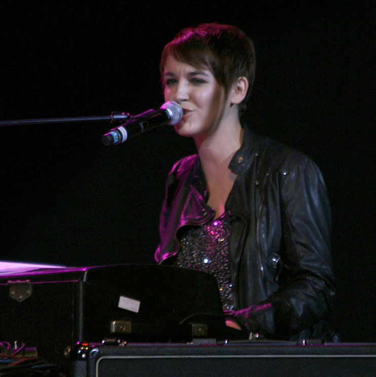 Sabina Hank; charity concert 'atemberaubend 08' in support of researching pulmonary hypertension (lungenhochdruck.at) at the Wiener Stadthalle.